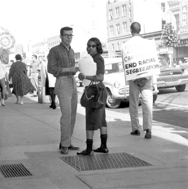 Local call number: RC12397G Title: Boycott and picketing of downtown stores: Tallahassee, Florida Date: December 1960 General note: Included in the photograph are Bill King and Patricia Stephens (later Mrs. John Due). Physical descrip: 1 photoprint - b&w - 10 x 8 in. Series Title: Reference collection Repository: State Library and Archives of Florida, 500 S. Bronough St., Tallahassee, FL 32399-0250 USA. Contact: 850.245.6700. Persistent URL: Patricia Stephens Due, a leader in the Tallahassee Civil Rights movement, passed away on February 7, 2012, at the age of 72. Read the Florida Memory blog post about Due and her involvement in the struggle for civil rights. Visit Florida Memory to find resources for Black History Month and to learn about the contributions of African-Americans in Florida history.